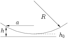 In a region of size a, the distance between both surfaces lies between h0 and h.